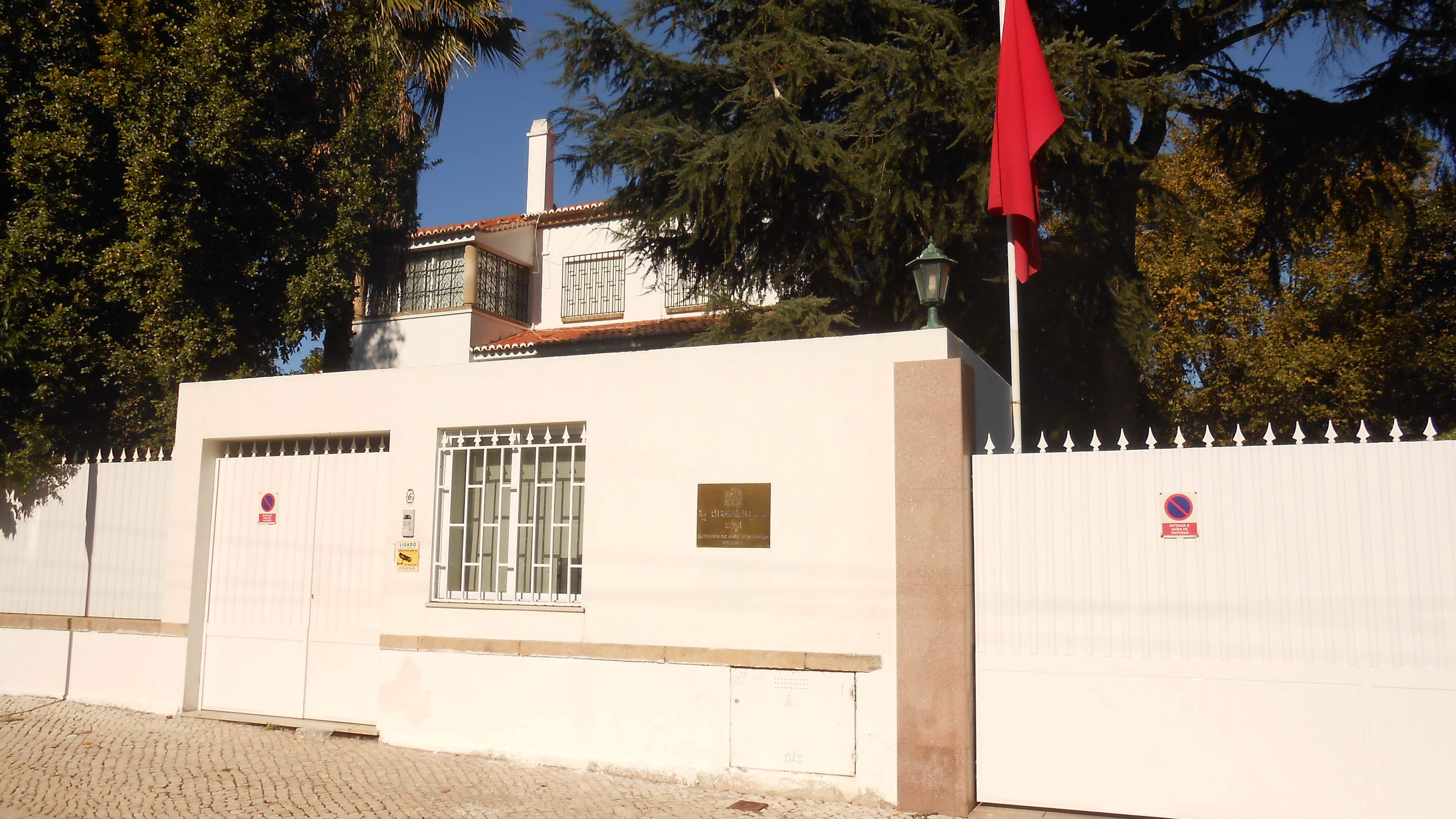 The moroccan embassy in Belém, a neighbourhood in Lisbon.